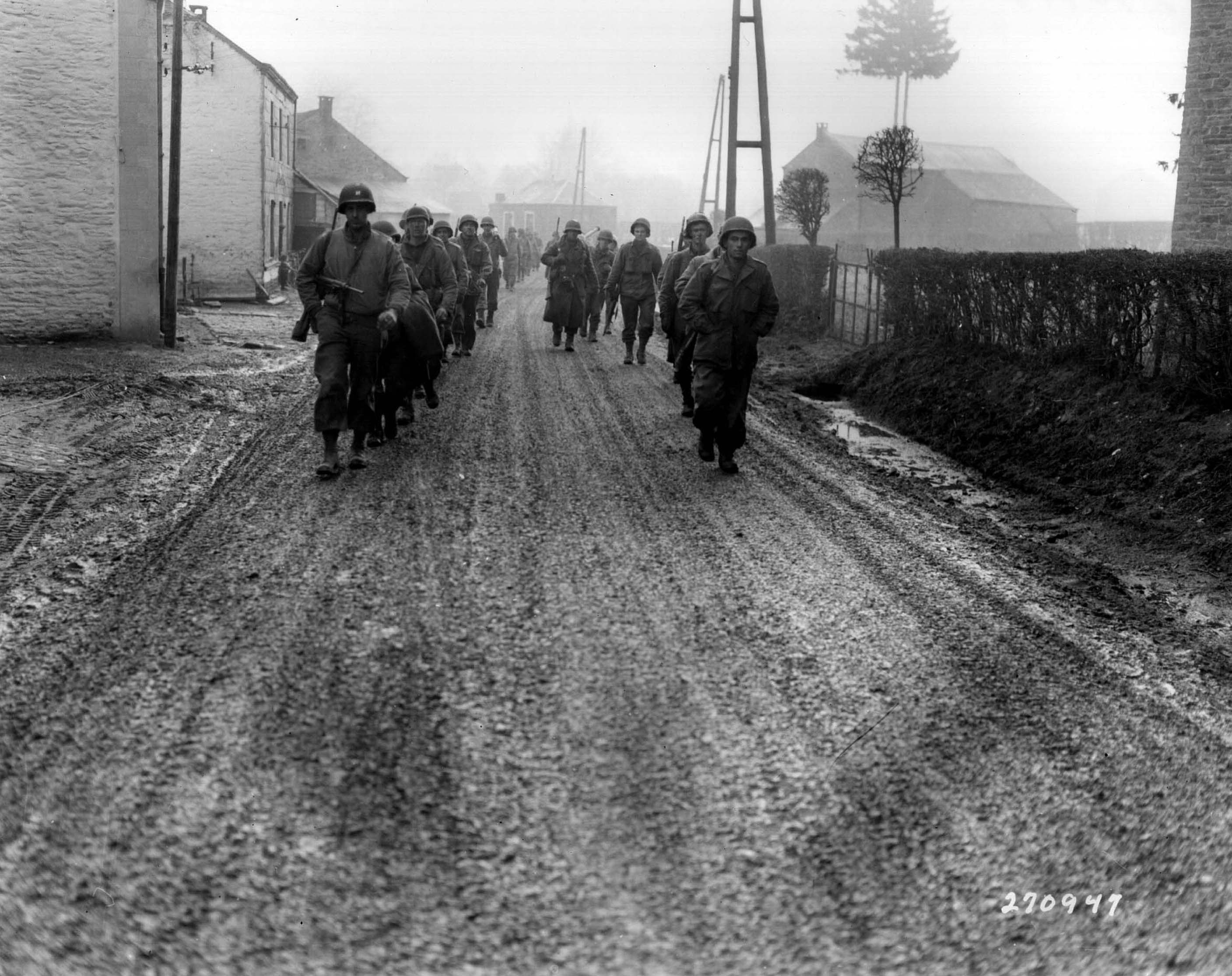 U.S. troops of the 28th Infantry Division, who have been regrouped in security platoons for the defense of Bastogne, Belgium, march down a street in Bastogne. Some of these soldiers lost their weapons during the German advance in this area. Signal Corps Photo #ETO-HQ-44-30380